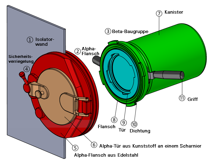 Information graphic Rapid Transfer Port